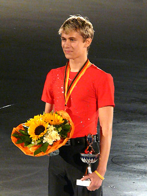 Michal Březina during the medal ceremony at the 2007 Nebelhorn Trophy.